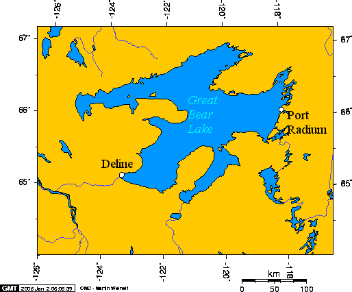 Map of Great Bear Lake, on the Arctic Circle in northern Canada. This map was created with an online version of the free GMT map-making tools.